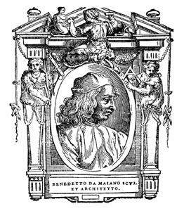 Illustratio from "Le Vite" by Giorgio Vasari, edition of 1568. For the artist portrayed see filename